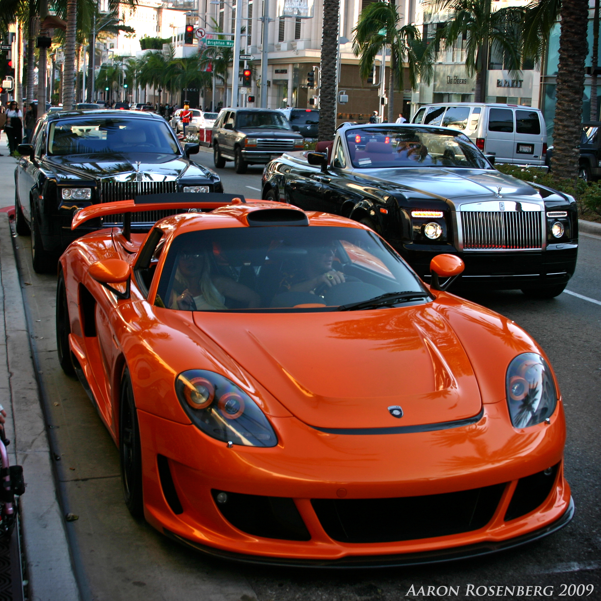 Orange Gemballa Mirage GT (based on Porsche Carrera GT) and a Rolls Royce Phantom and Drophead Phantom.